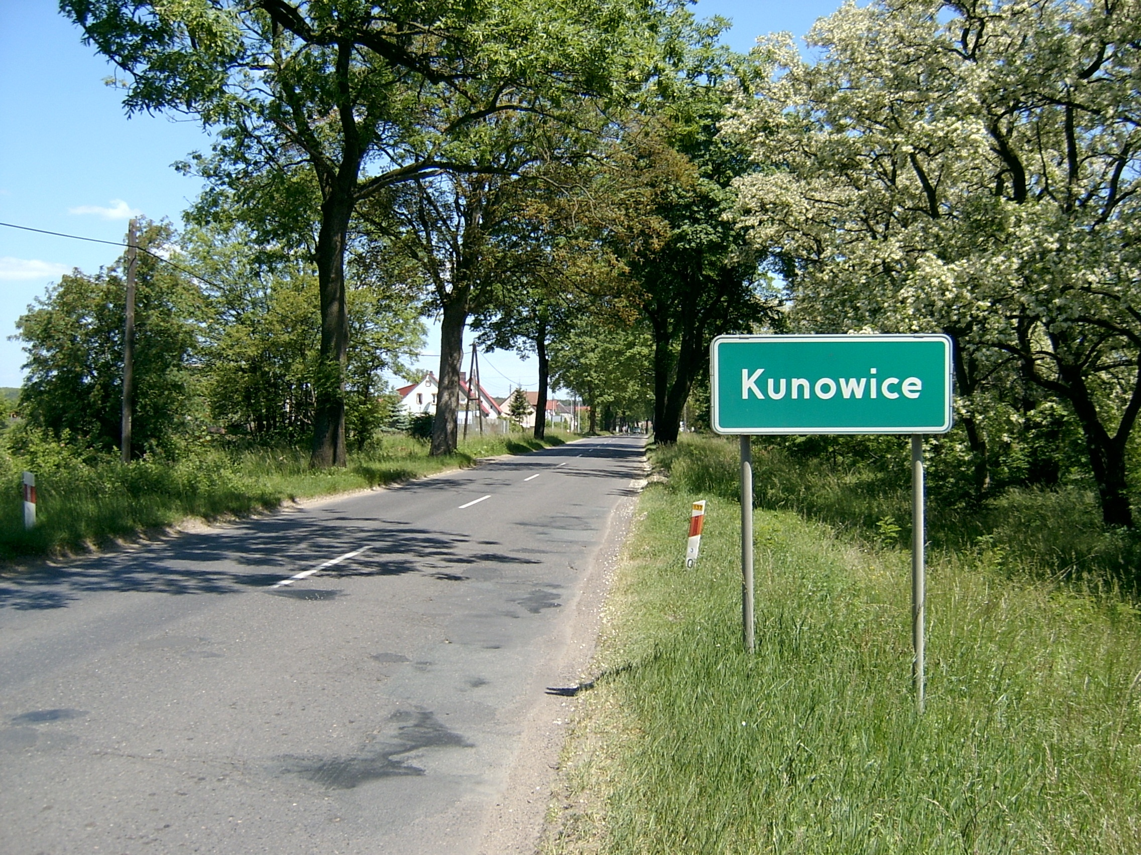 Kunowice in Poland, entrance to village coming from Słubice.